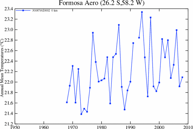 Climate graph of 1968 2008 air average temperaturas at city of Formosa, Formosa province, Argentina